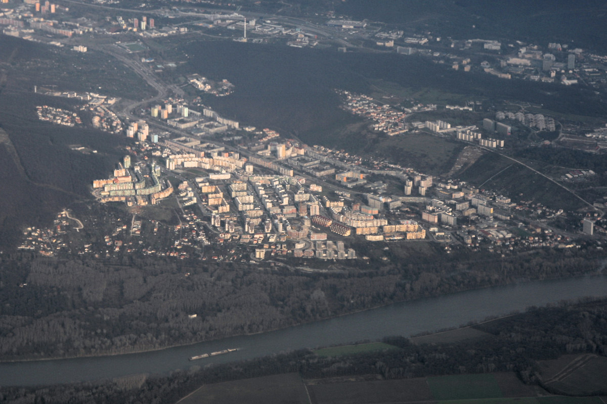 Aerial view of Karlova Ves borough of Bratislava, Slovakia.